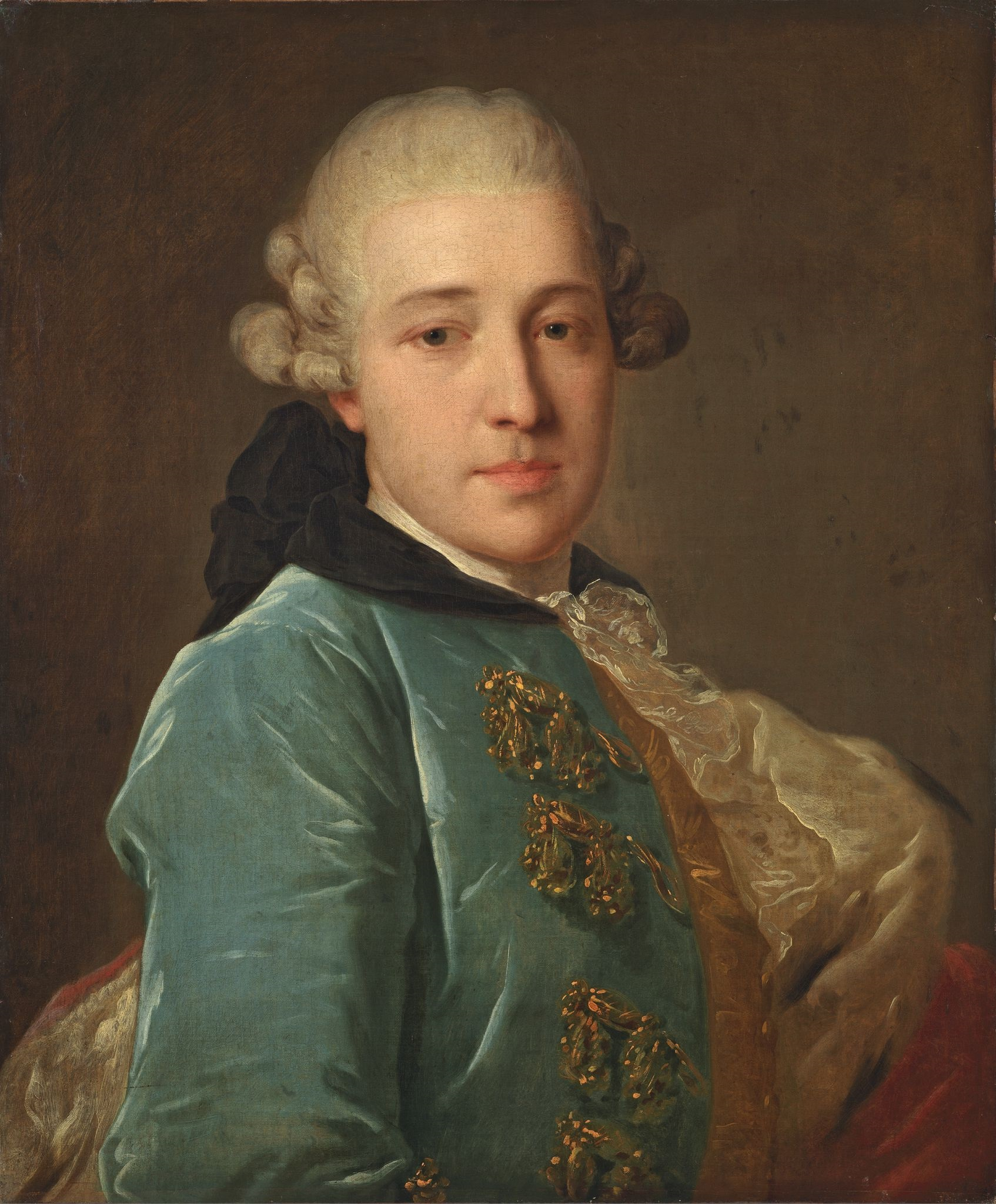 Colonel Prince Dmitry Mikhailovich Galitzine (1735–1771) was a Russian nobleman of the princely house Galitzine, a son of Prince Mikhail Mikhailovich Galitzine (1684–1764) and his second wife Tatiana Kirillovna Galitzine, née Naryshkina (1702–1757).